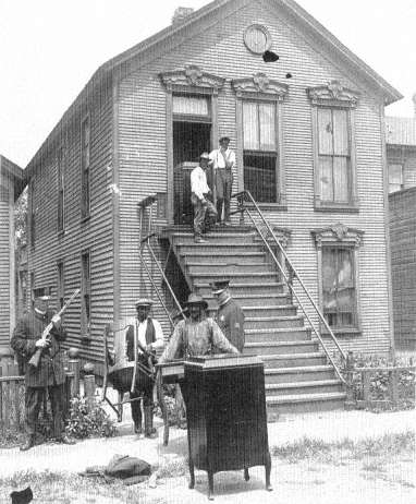 African American family evacuating their house after it was vandalized in the 1919 Chicago race riot